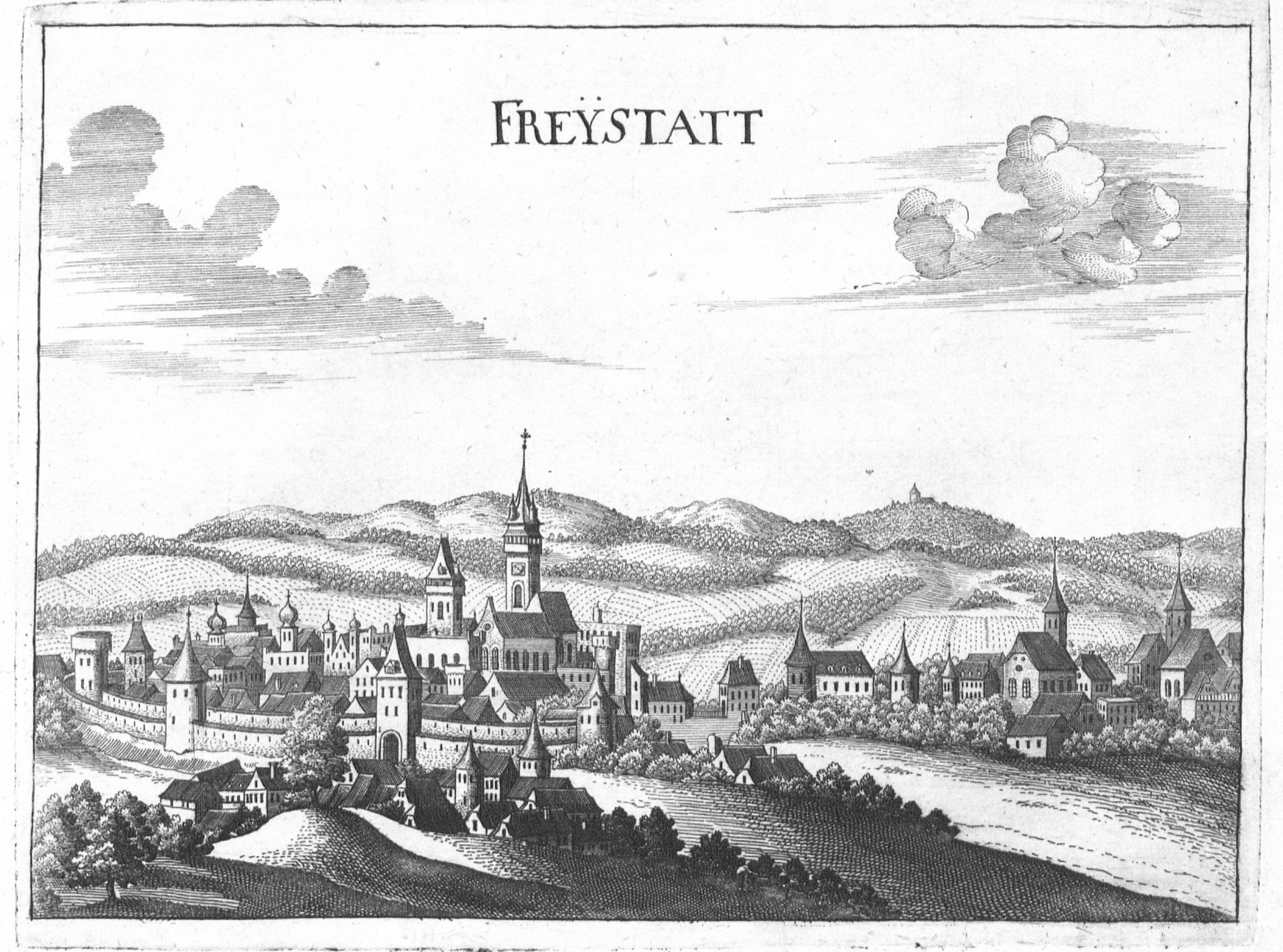 Engraving, view of Freistadt, Upper Austria